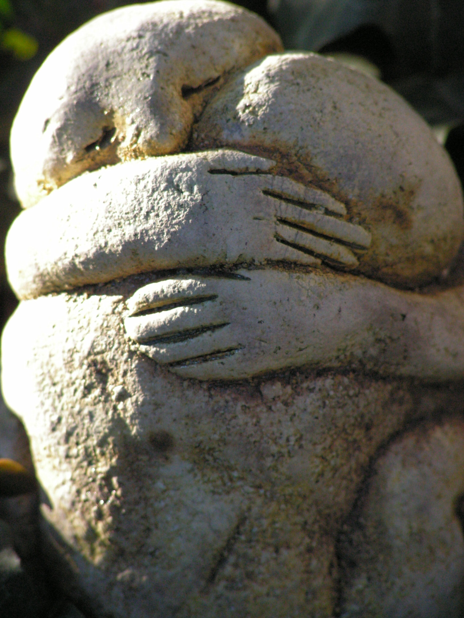 Egg of Love